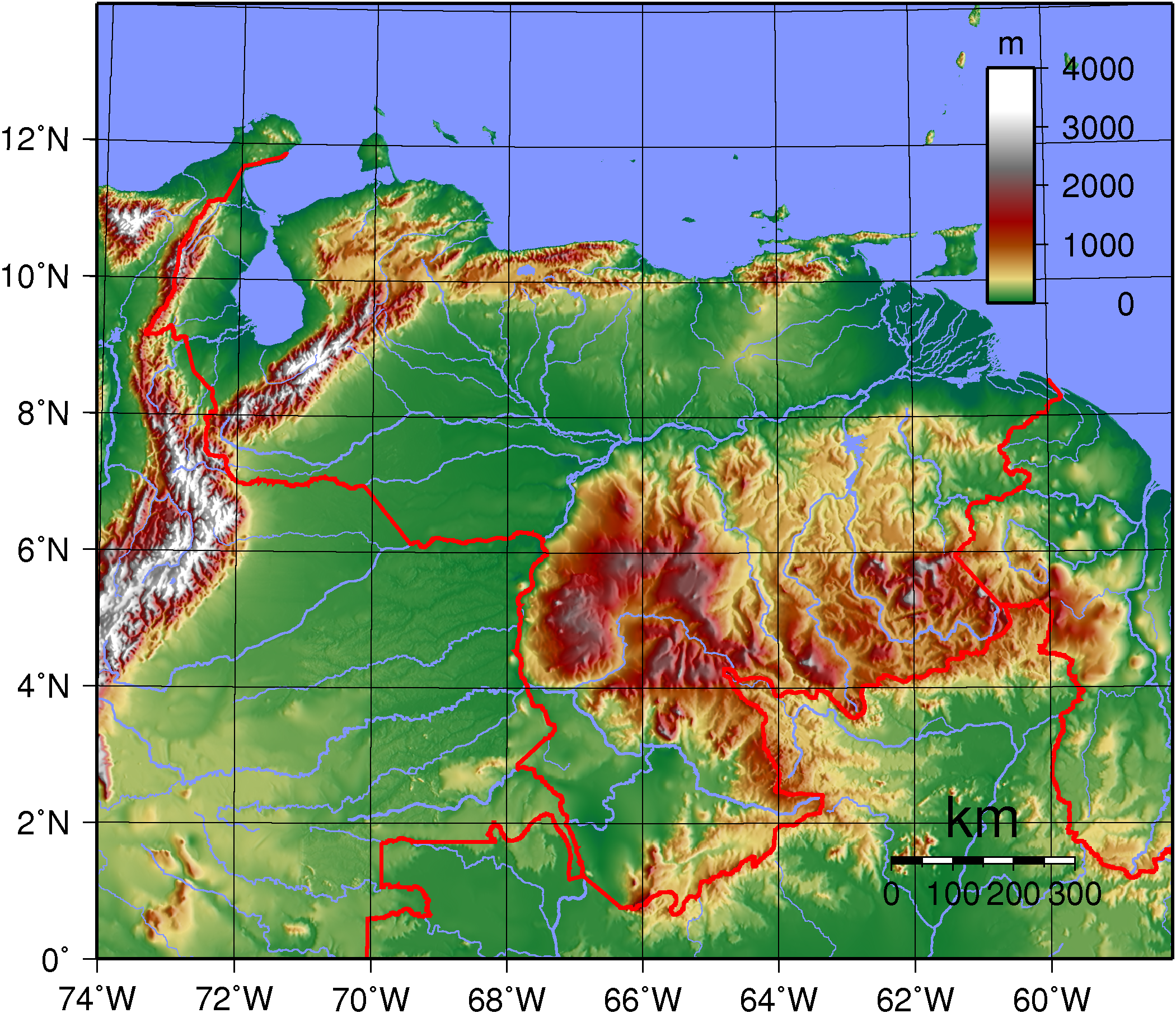 Topographic map of Venezuela. Created with GMT from publicly released GLOBE data.[1]